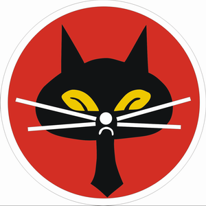 The mark of ROCAF 35th Squadron (Black Cat).